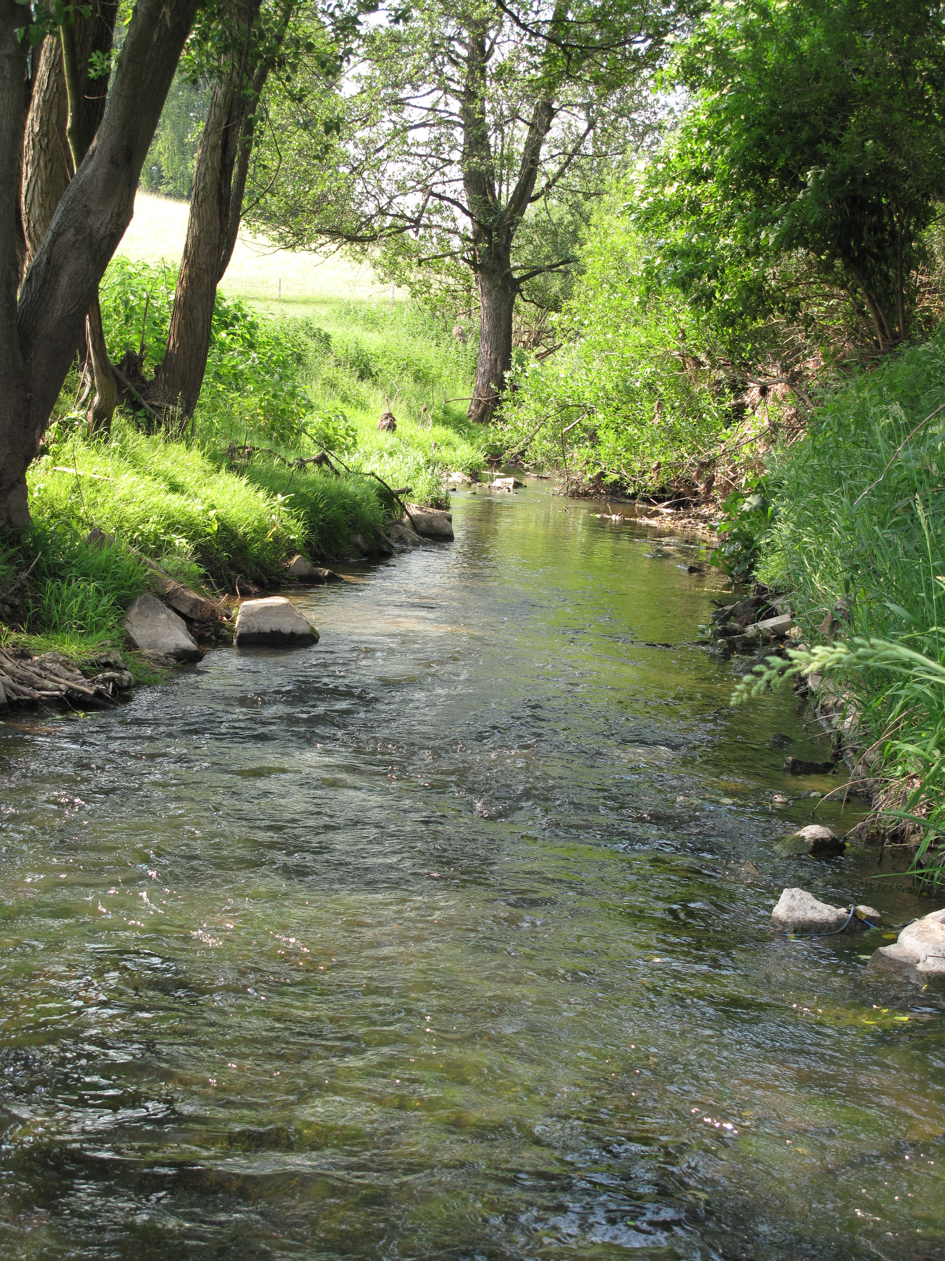 Libuňka River in Doubravice village, Semily District, Czech Republic.